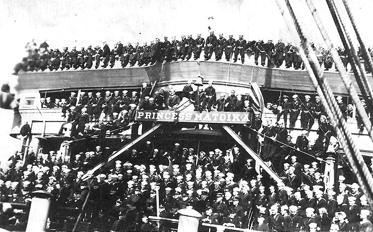 USS Princess Matoika (ID # 2290) Ship's officers and crew posed on and in front of her bridge, circa 1918. The original image was printed on postal card ("AZO") stock. Donation of Dr. Mark Kulikowski, 2006. U.S. Naval Historical Center Photograph.